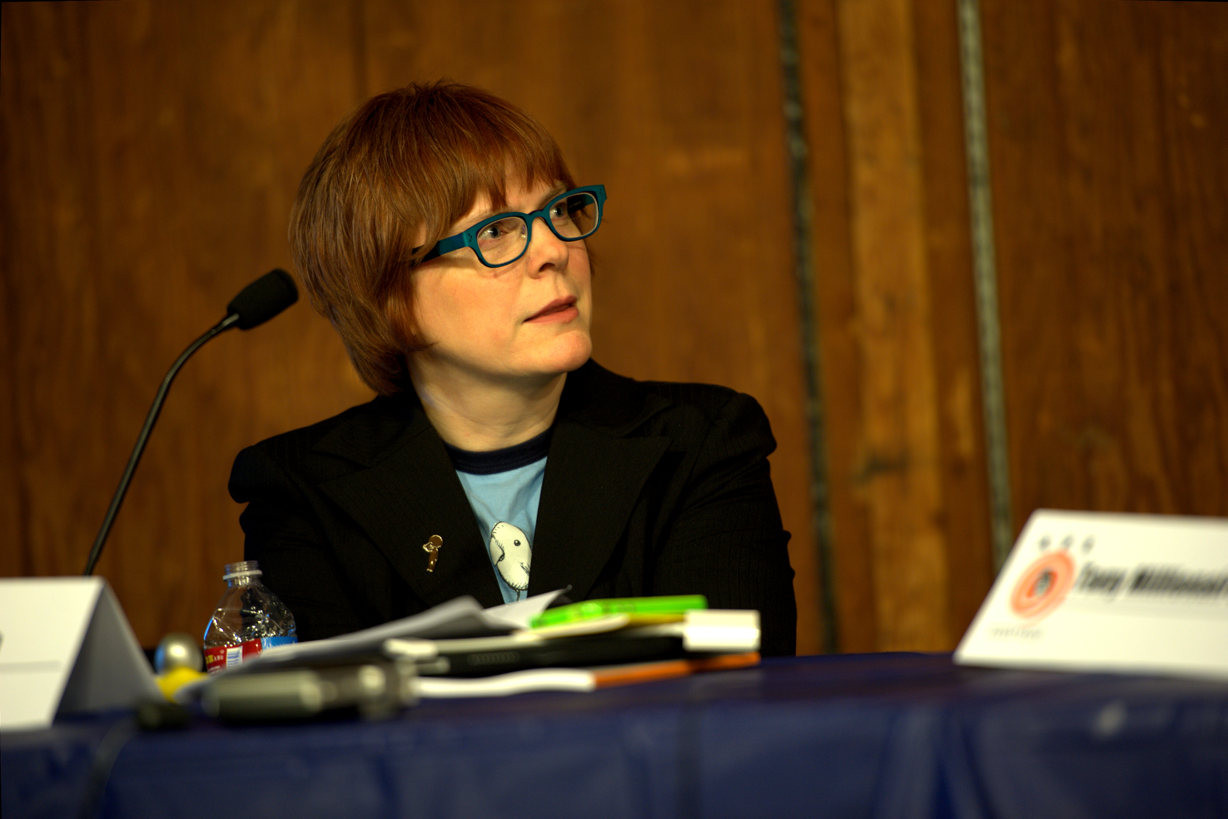 Portrait of cartoonist Renée French by Guillaume Paumier at the Alternative Press Expo 2010, organized at the Concourse Exhibition Center in San Francisco, California, by Comic-Con International on Oct. 16-17, 2010.